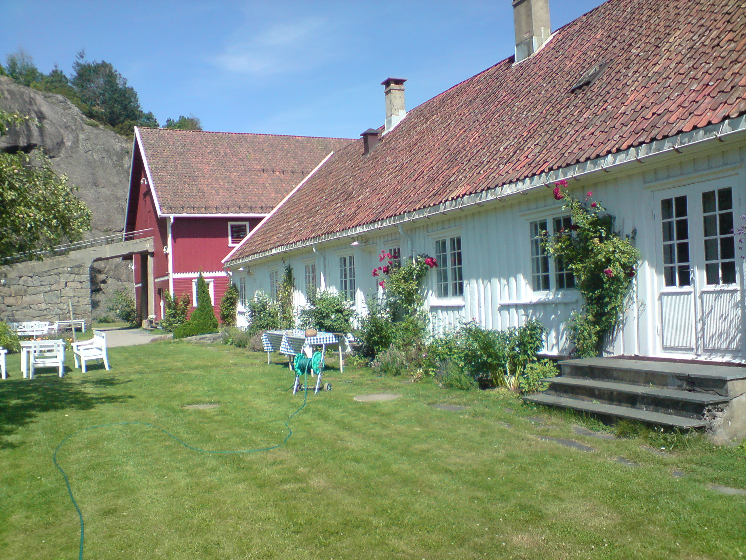 Old parch farm house at Søgne, Norway